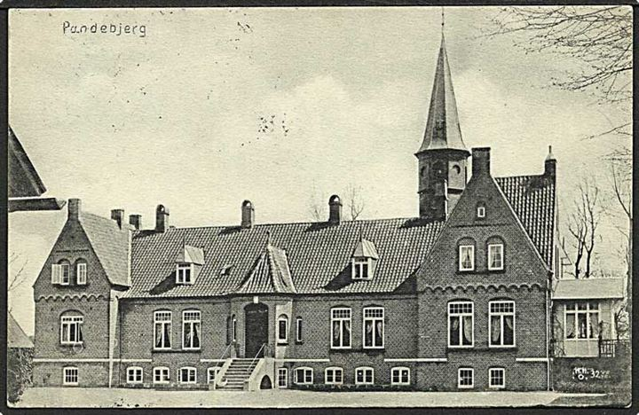 Pandebjerg on Galster in Denmark